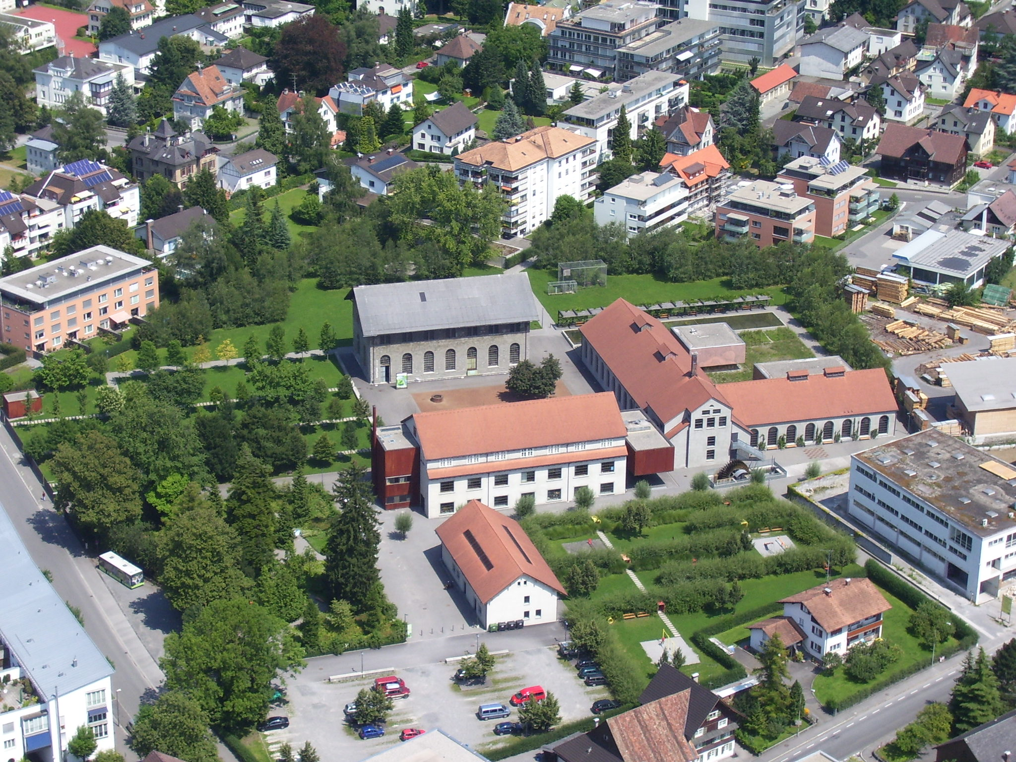 The Inatura in Dornbirn (Vorarlberg, Austria). Aerial photo taken at a flight with the "Libelle" helicopter of the austrian Ministery of the Interior.